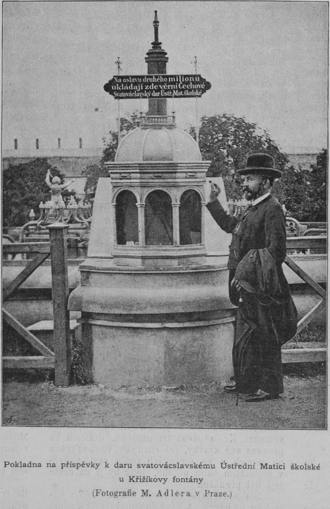 Collection box of Ústřední matice školská (Central School Foundation, charity to promote Czech-language minority schools) at Anniversary Exhibition in Prague 1891